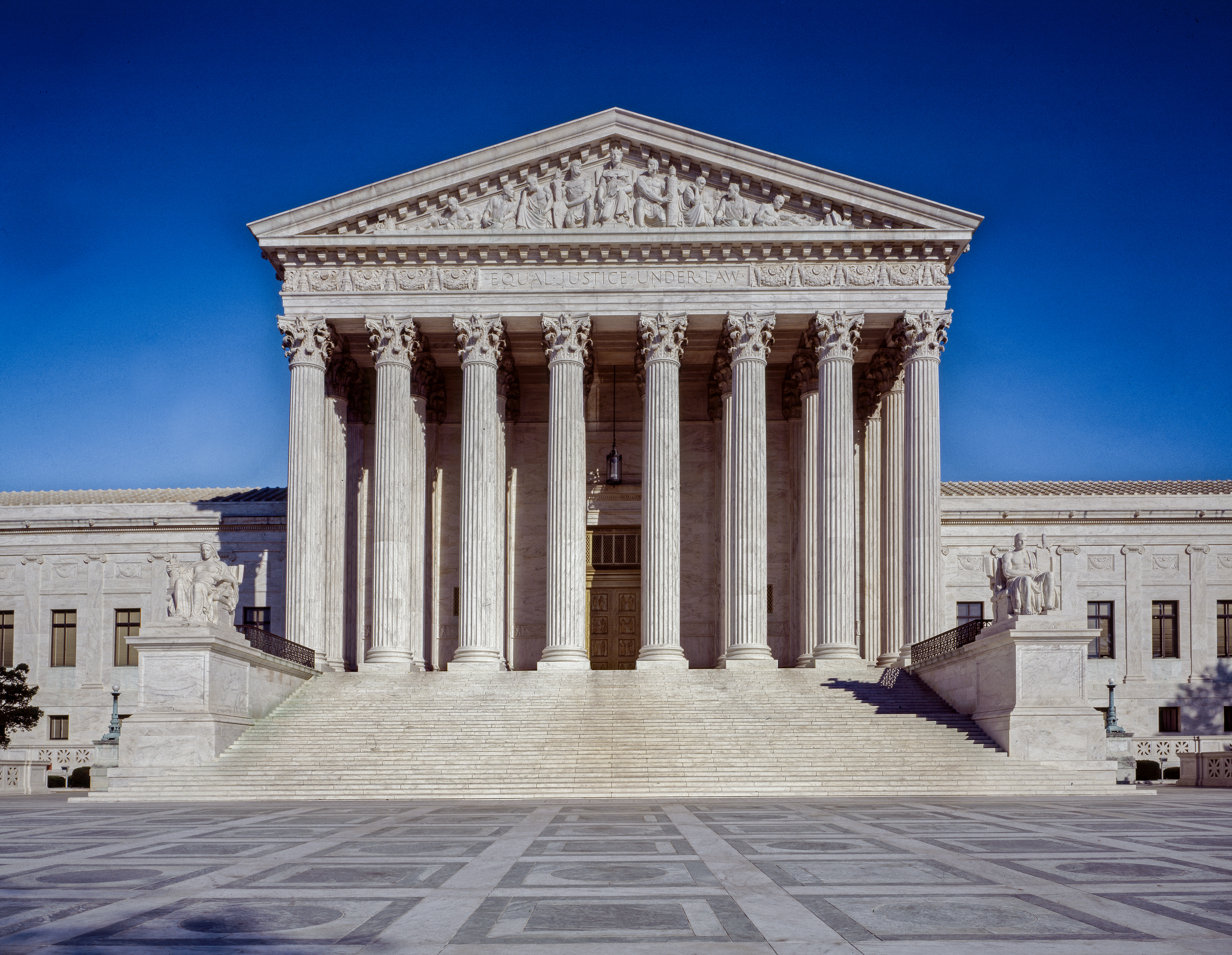 Title: U.S. Supreme Court building, Washington, D.C Fron: File:U.S. Supreme Court building, Washington, D.C LCCN2011631106.tif Physical description: 1 transparency : color ; 4 x 5 in. or smaller. Notes: Title, date, and keywords provided by the photographer.; Digital image produced by Carol M. Highsmith to represent her original film transparency; some details may differ between the film and the digital images.; Forms part of the Selects Series in the Carol M. Highsmith Archive.; Gift and purchase; Carol M. Highsmith; 2011; (DLC/PP-2011:124).; Credit line: Photographs in the Carol M. Highsmith Archive, Library of Congress, Prints and Photographs Division.